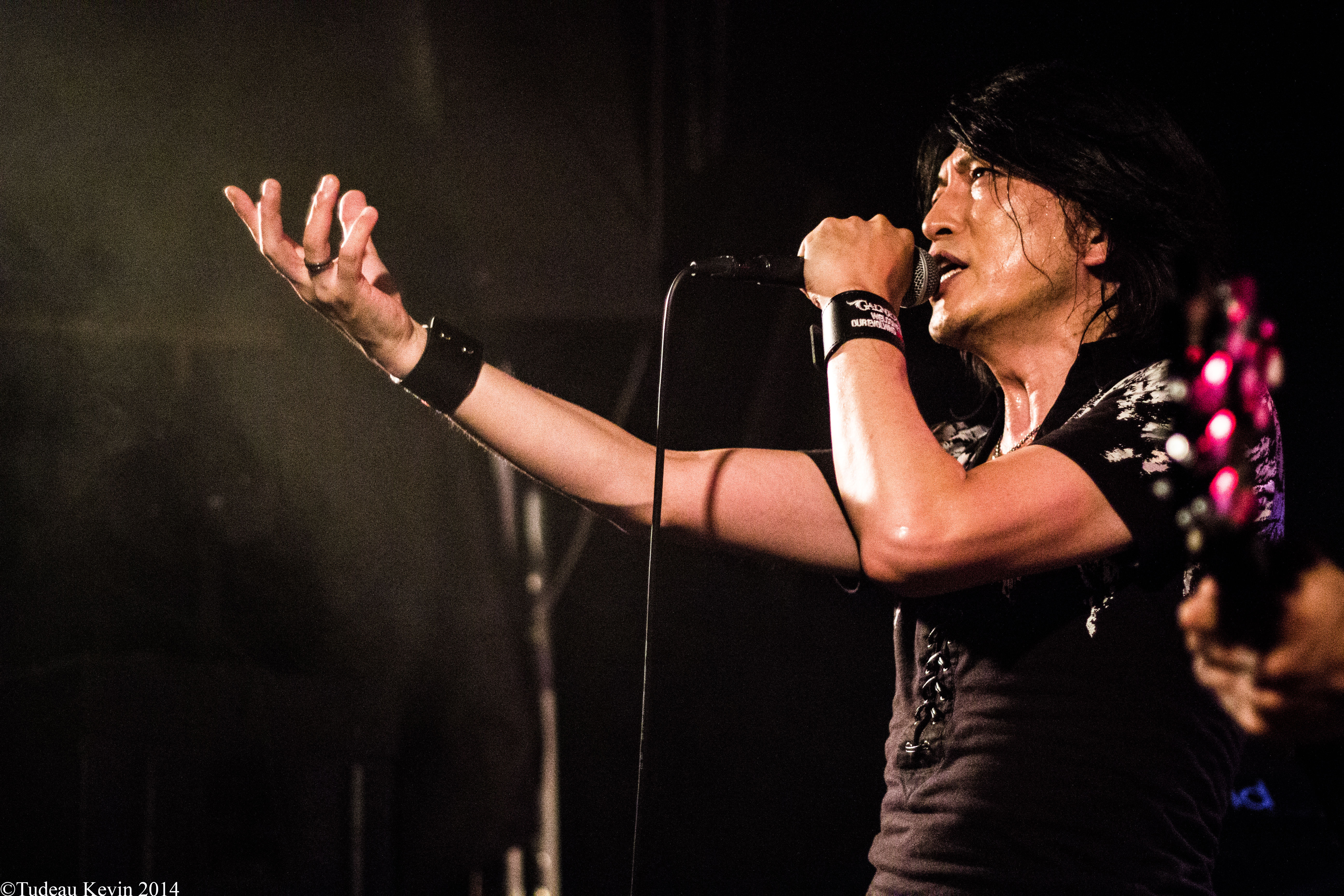 Galneryus. (2014)